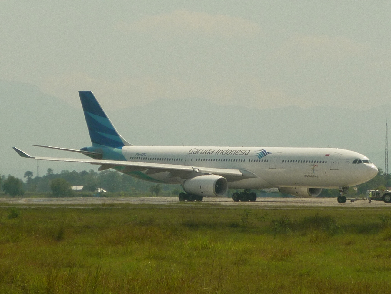 Being pushback at Banda Aceh before it take off to Jeddah